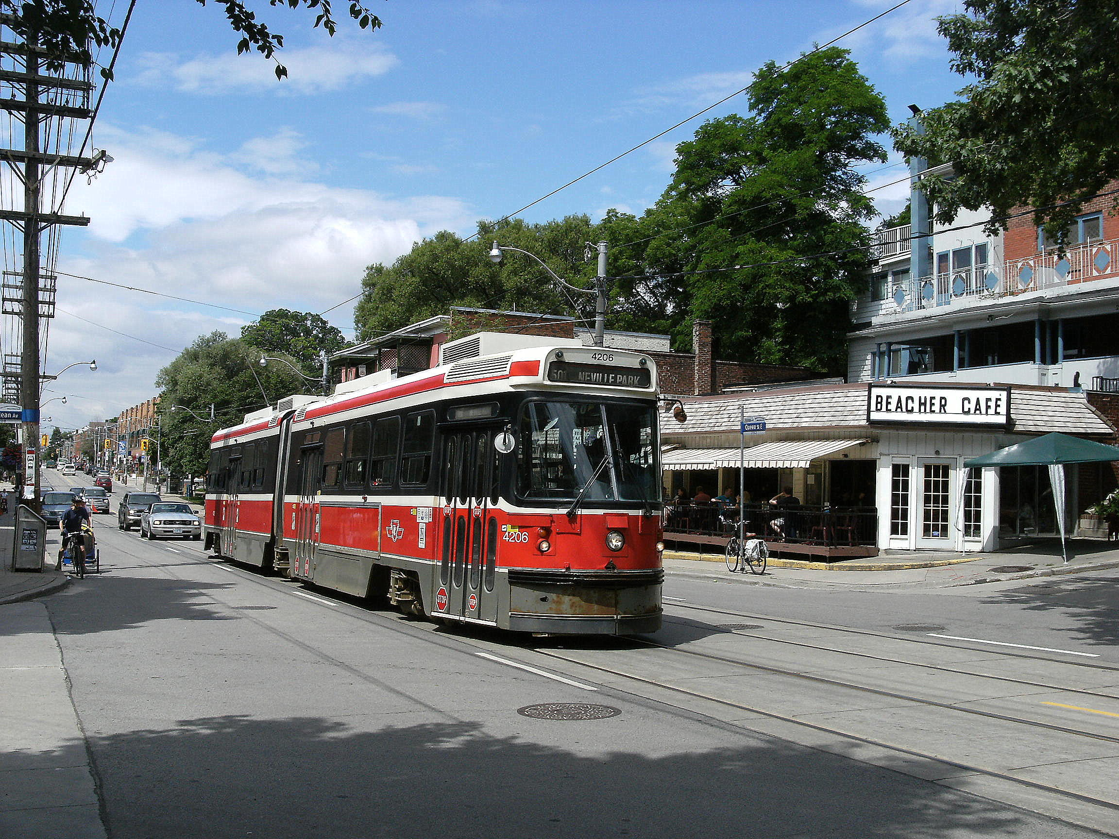 streetcar passing Beacher Cafe